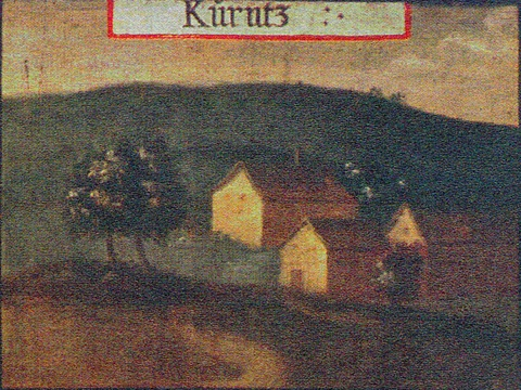 Kürenz in 1589